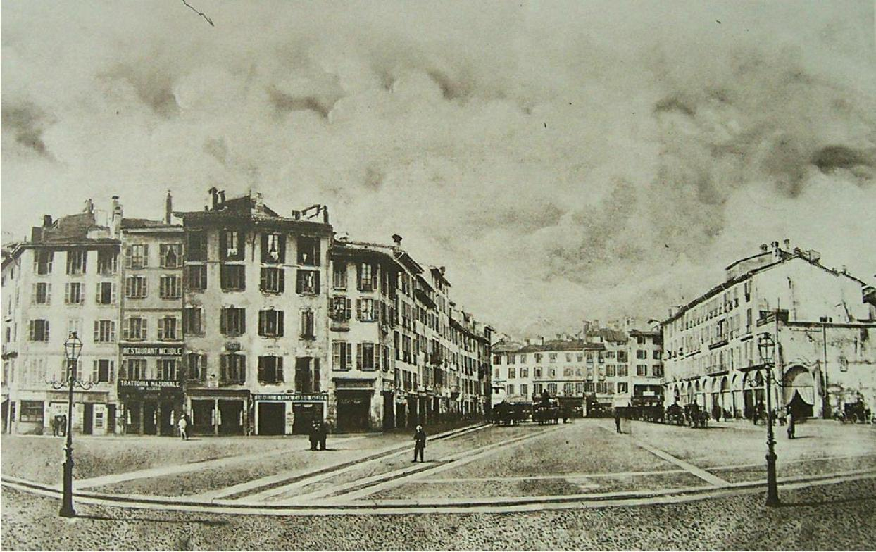 Alessandro Duroni (1807-1870) - Piazza Duomo in Milan around 1865, before demolitions began, in 1866. On the left quarter of the seventeenth-century "Rebecchino". All of the buildings appearing in this image were demolished to open what is now "Piazza del Duomo", including the Renaissance porch on the right hand, called "Coperto dei Figini".